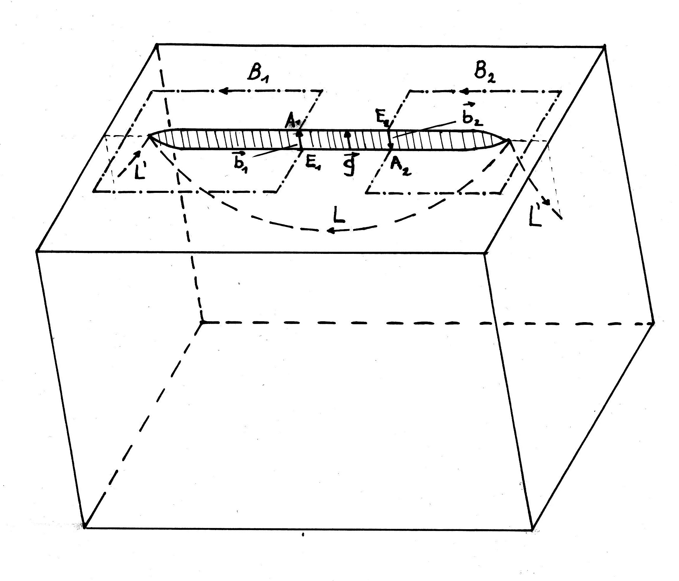 It is shown the generation of a screw like junction between neighboring lattice planes at the ends of a glide step continuing in the crytal by a dislocation.